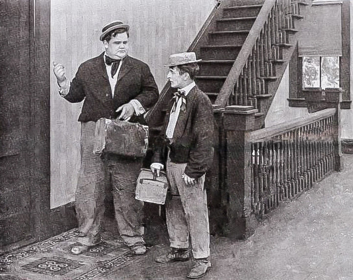 Film still of actors Oliver Hardy (left) and Bert Tracy talking in hallway outside a closed apartment door; published under "LUBIN FILMS / Back to the Farm", The Lubin Bulletin (Philadelphia, Pennsylvania), August 29, 1914, p. [13].